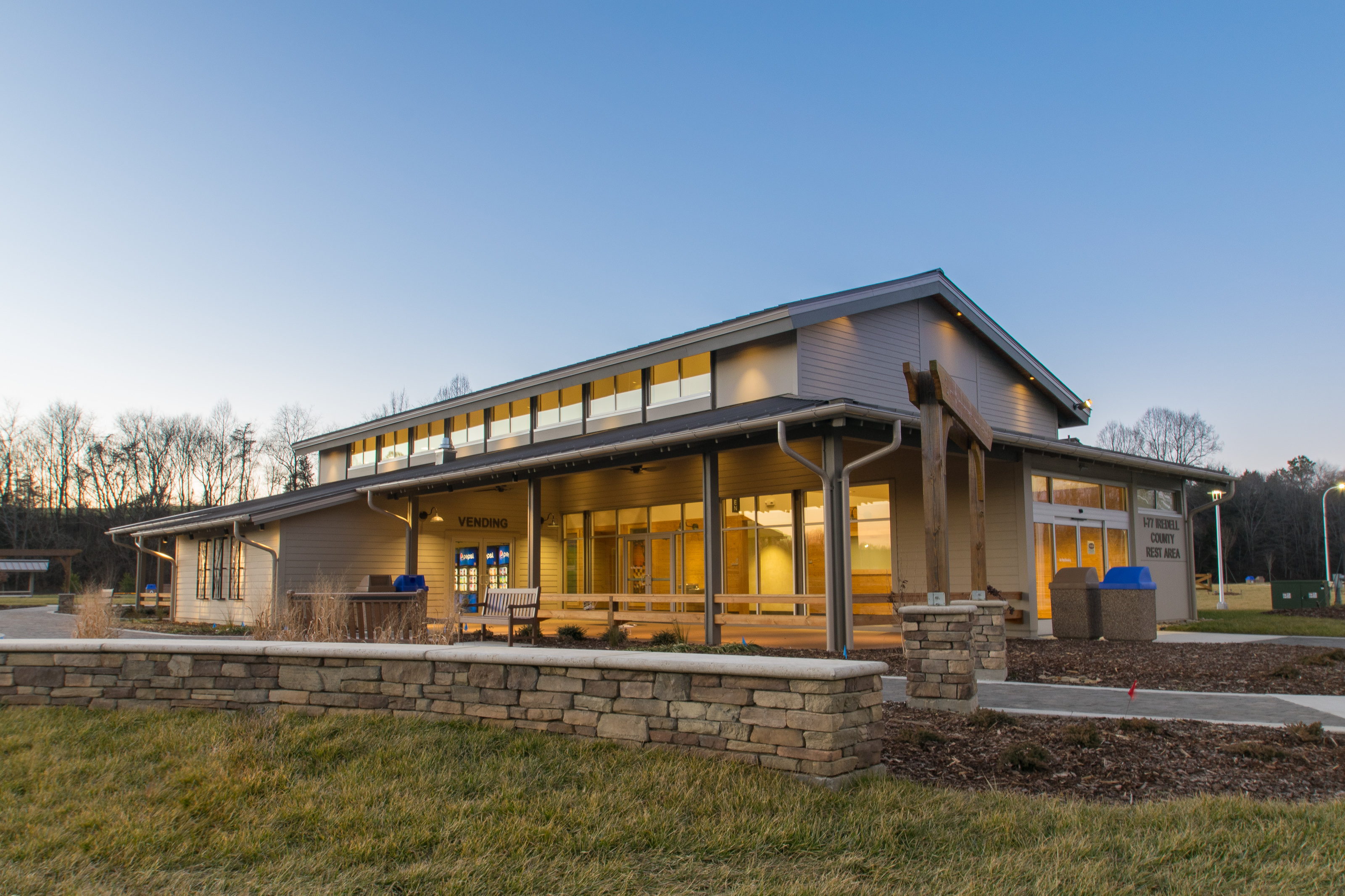 Iredell Rest Area near I-77, Exit 59.